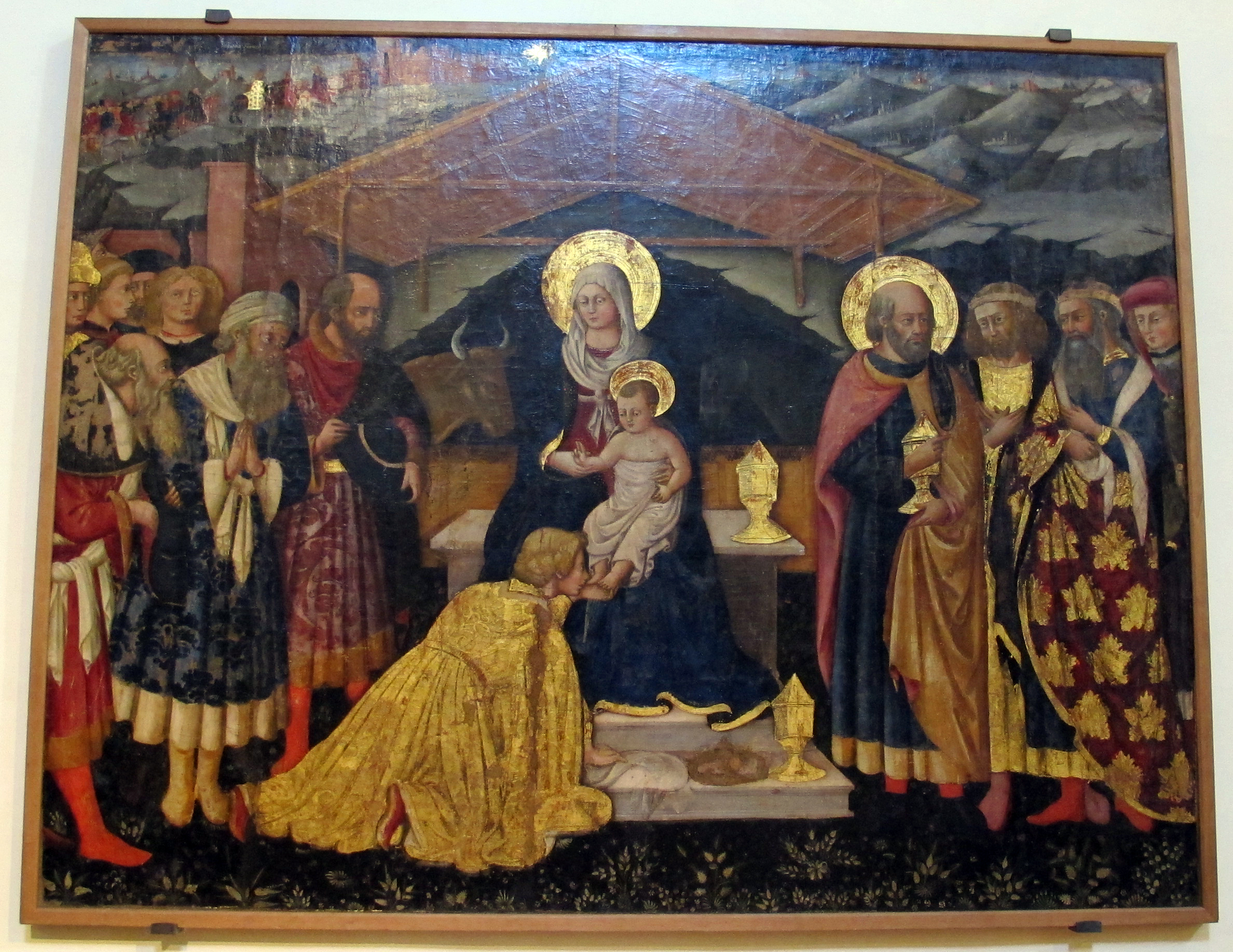 Santa Felicita (Florence) - Sacristy